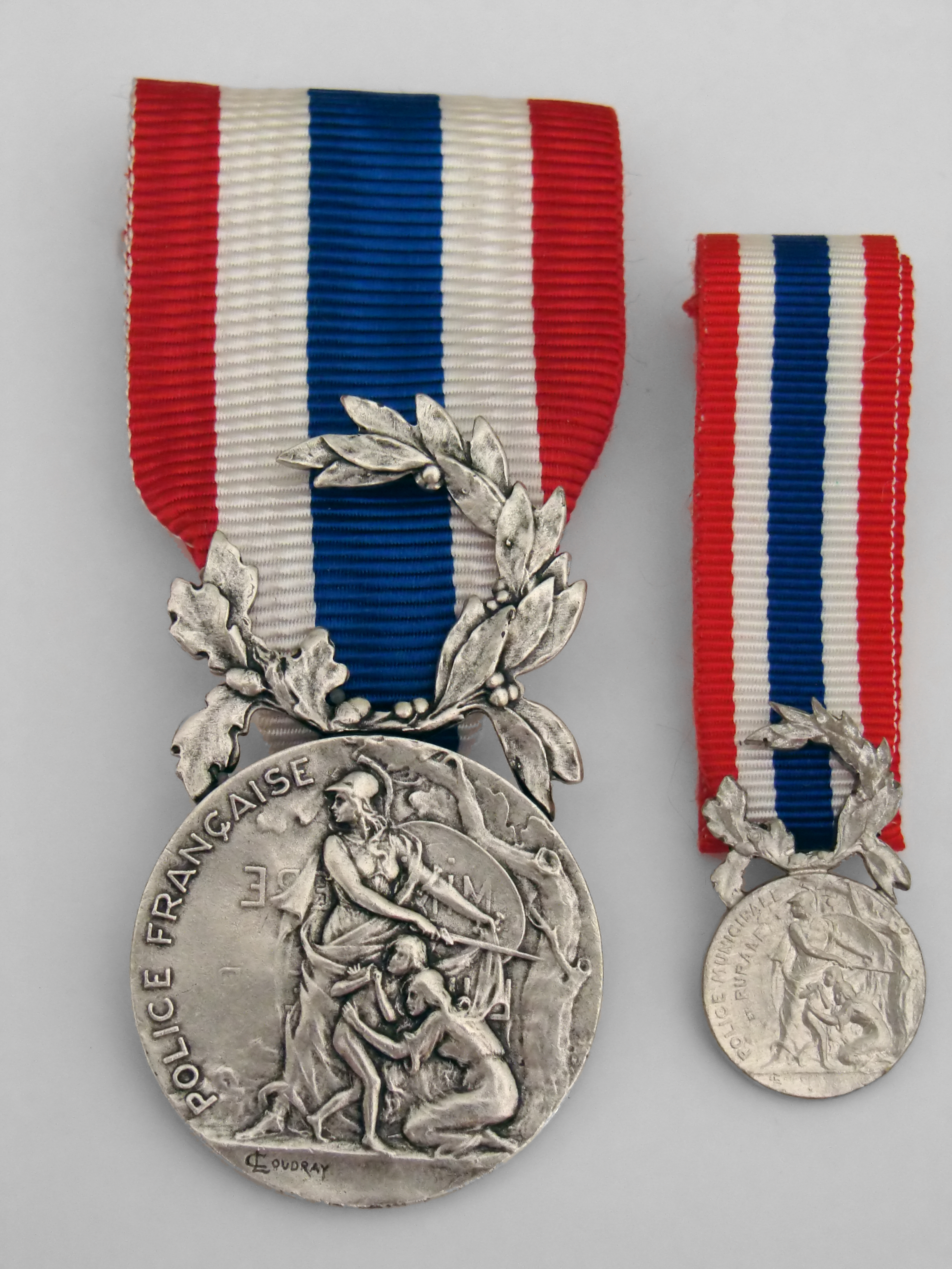 Medal of Honor of the French Police, and reduction, obverse